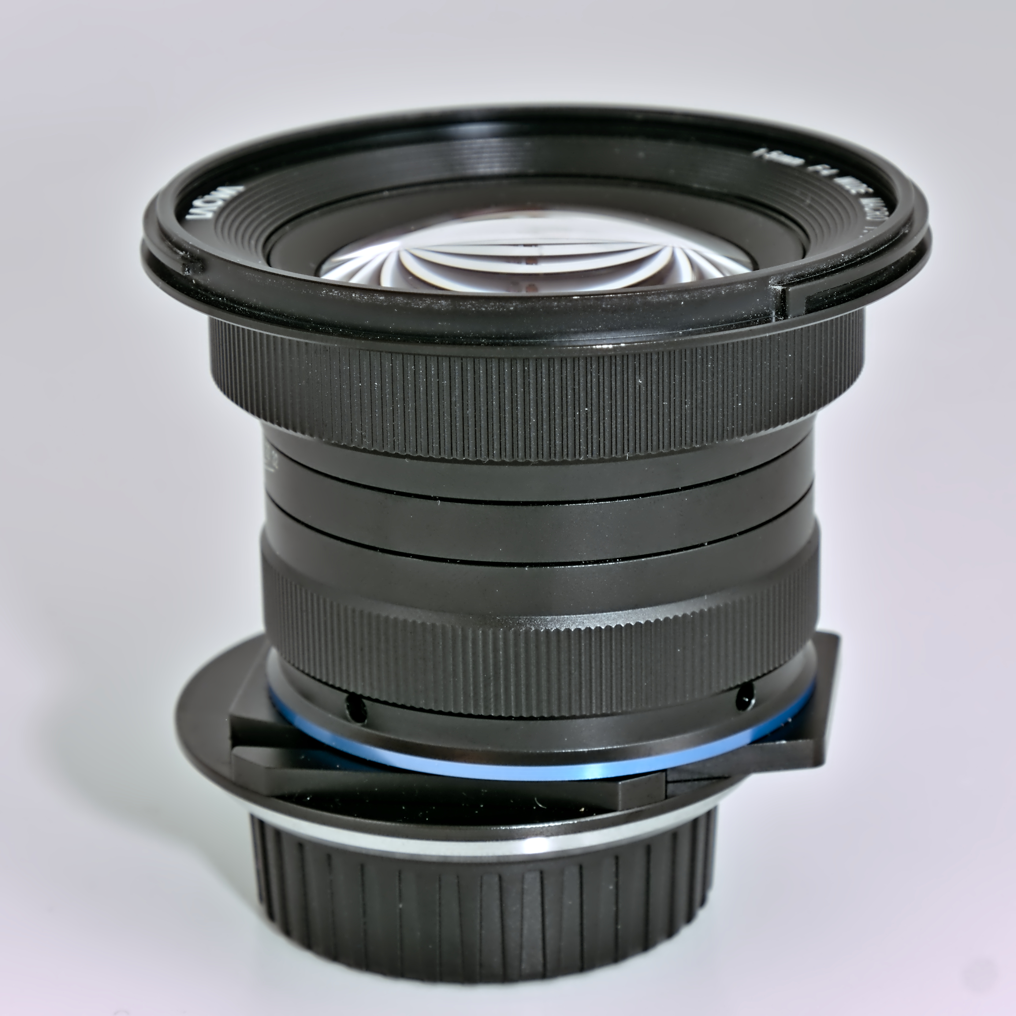 Venus Optics Laowa 15 mm f/4 wide angle macro lens with maximum shift function applied, version Nikon-F mount, side view